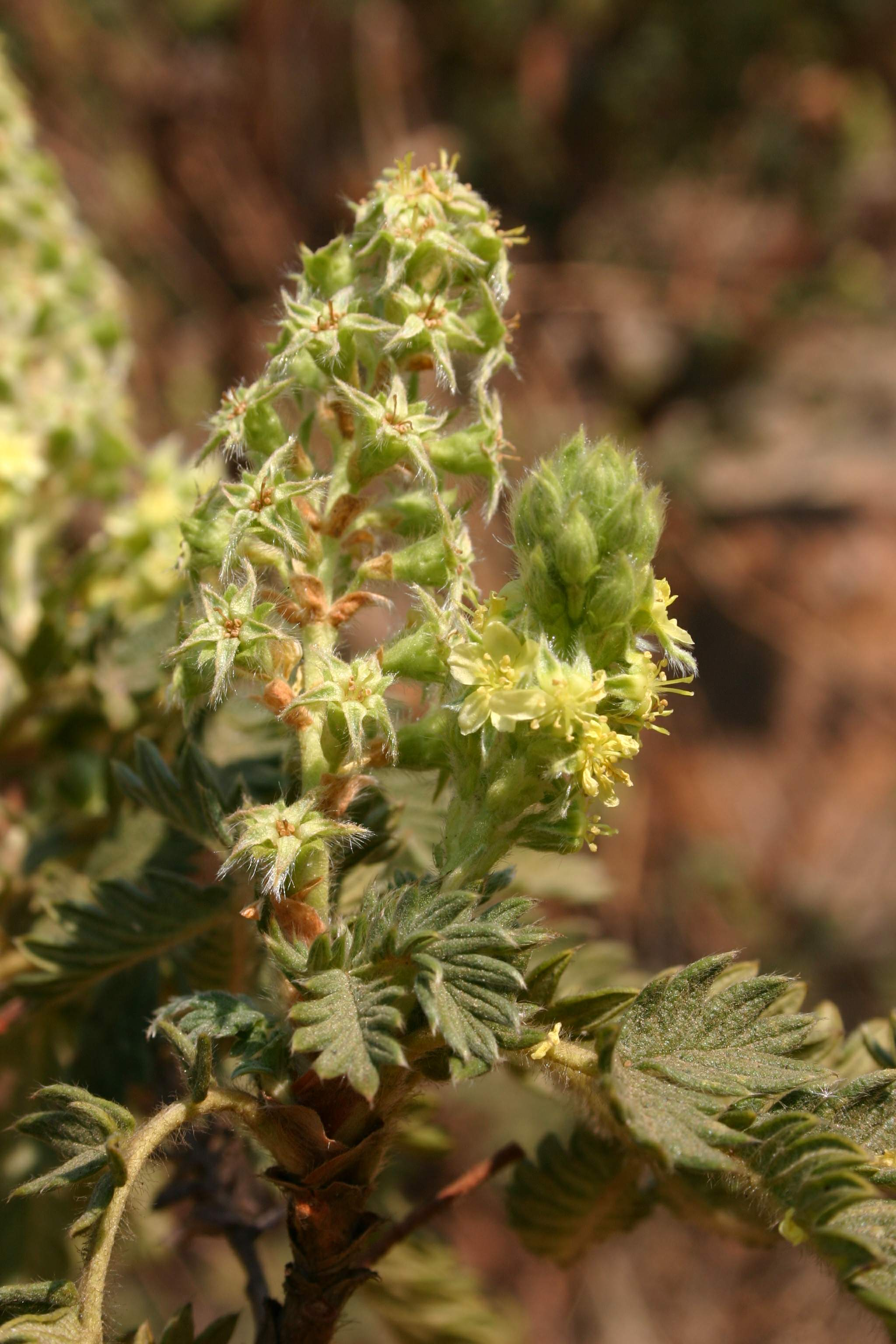 Flowers and foliage of Leucosidea sericea growing in Johannesburg, South Africa